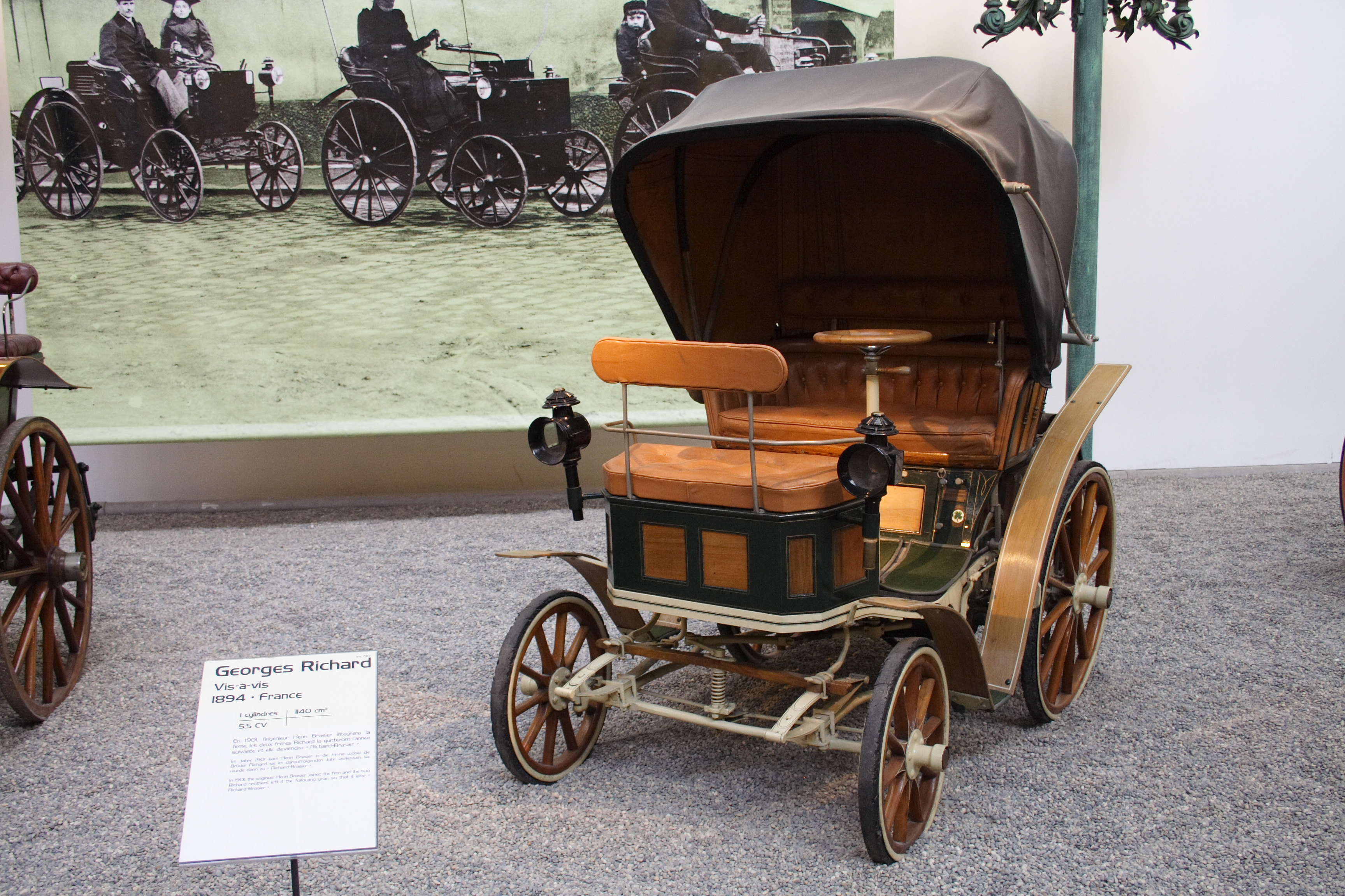 Georges Richard's VIS-A-VIS 1897 at the Musée National de l'Automobil(Mulhouse, France)